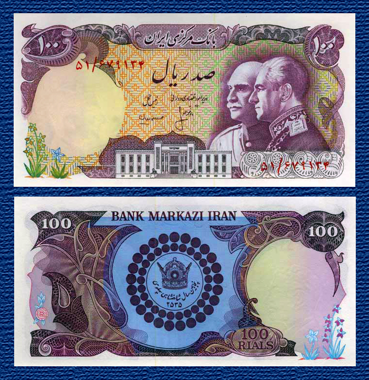 Commemorative banknote of the Pahlavi Jubilee. It's a scan from a 100 Rials banknote